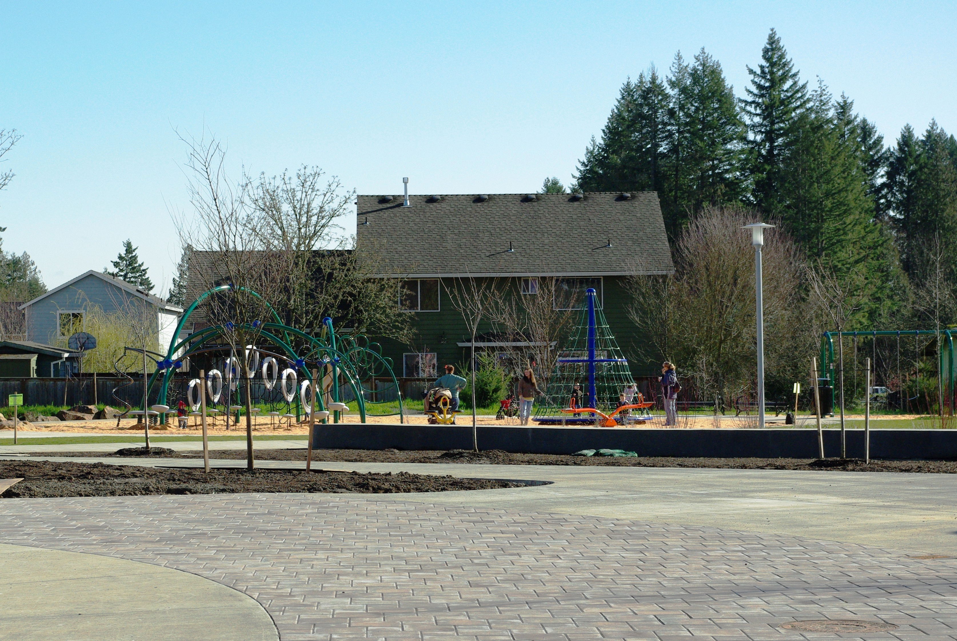 Playground at w:53rd Avenue Park in Hillsboro, Oregon.